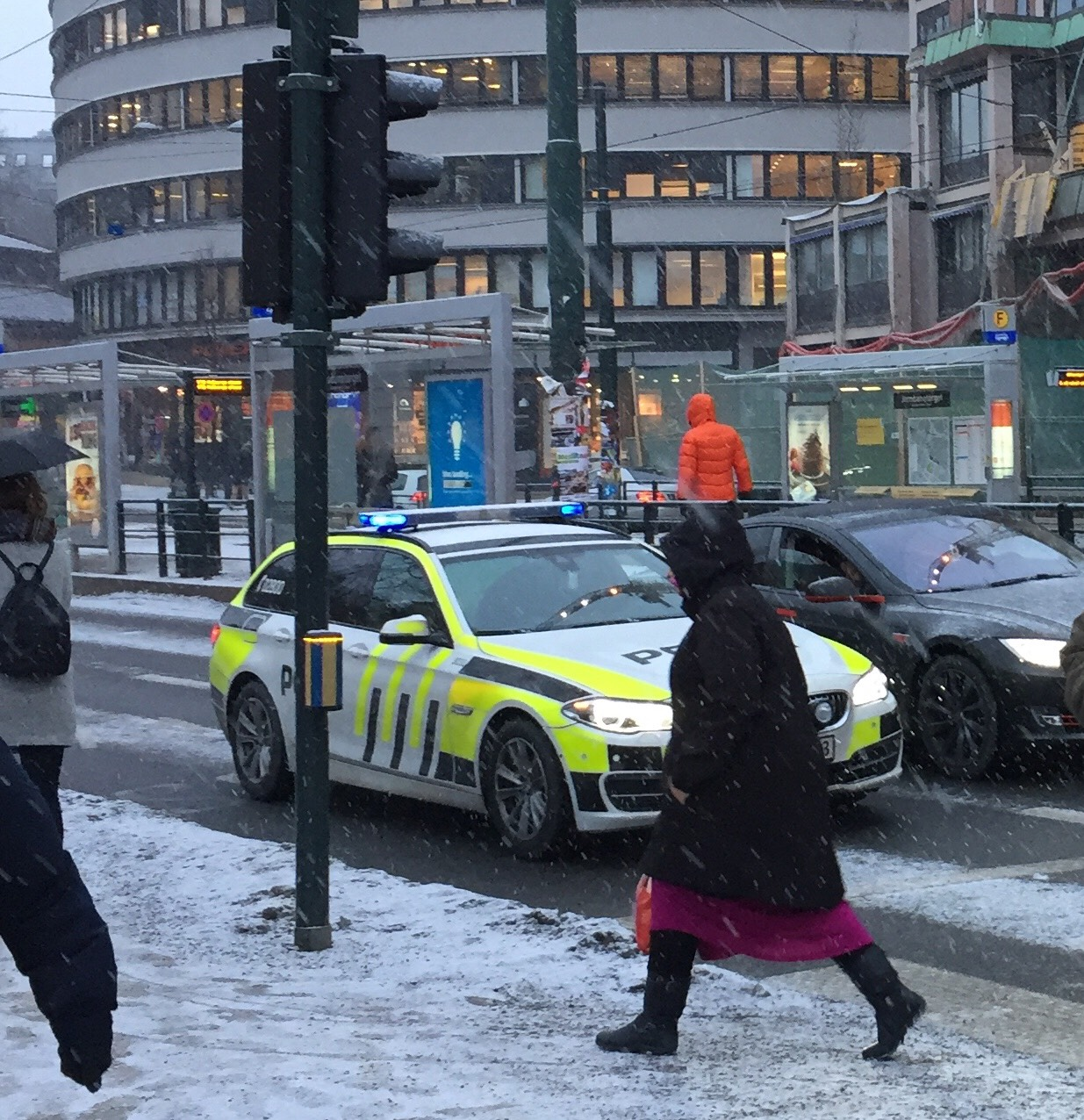 Norwegian police vehicle with blue cruise lights, February 2018